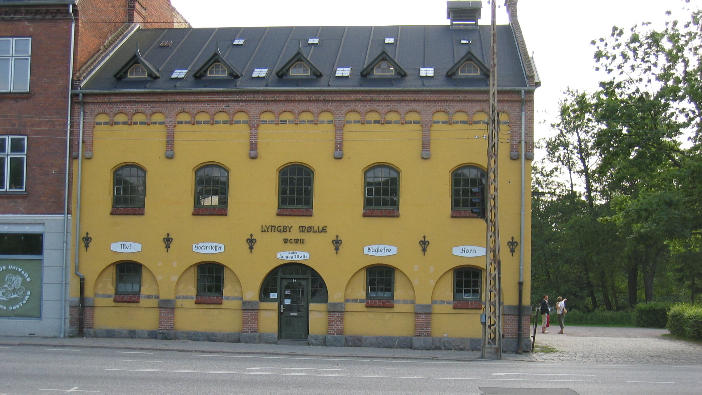 Lyngby south mill, Royal Lyngby, Denmark.